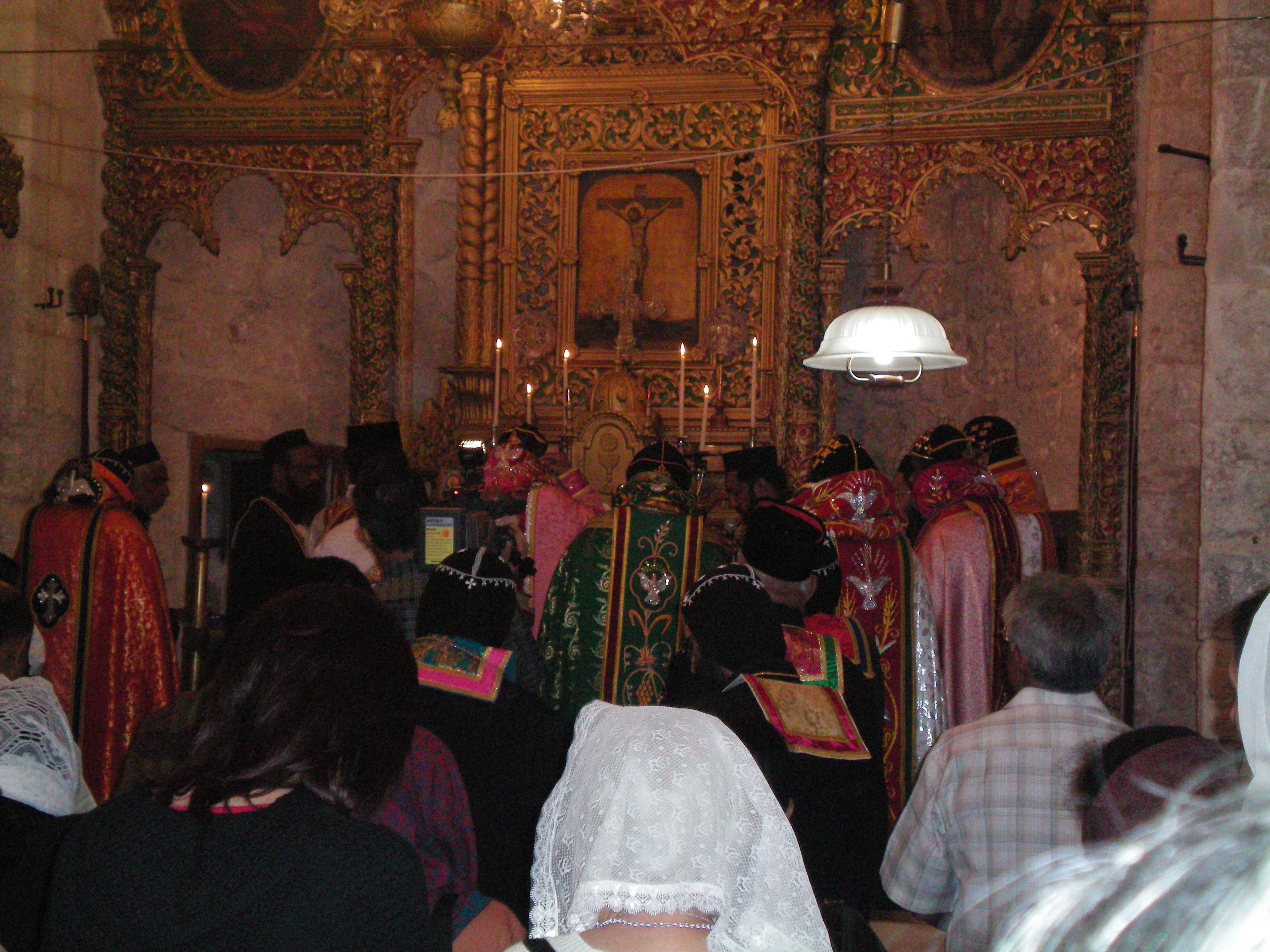 Holy Mass being celebrated at the St.Mark's Syriac Orthodox Monastery